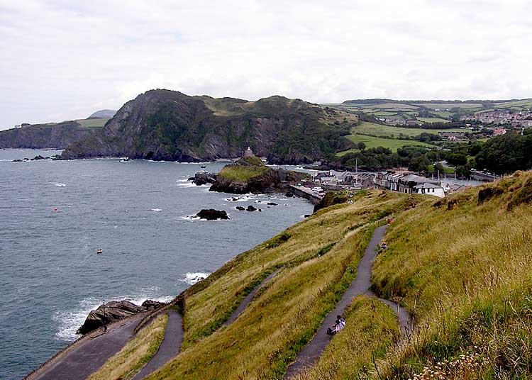 The South West Coast Path passes along the cliffs in the distance, at Ilfracombe, North Devon. The highest point in this view is Hillsborough (447 feet, 136 metres). A part of Ilfracombe is seen on the right. Taken by Adrian Pingstone in July 2004 and released to the public domain.